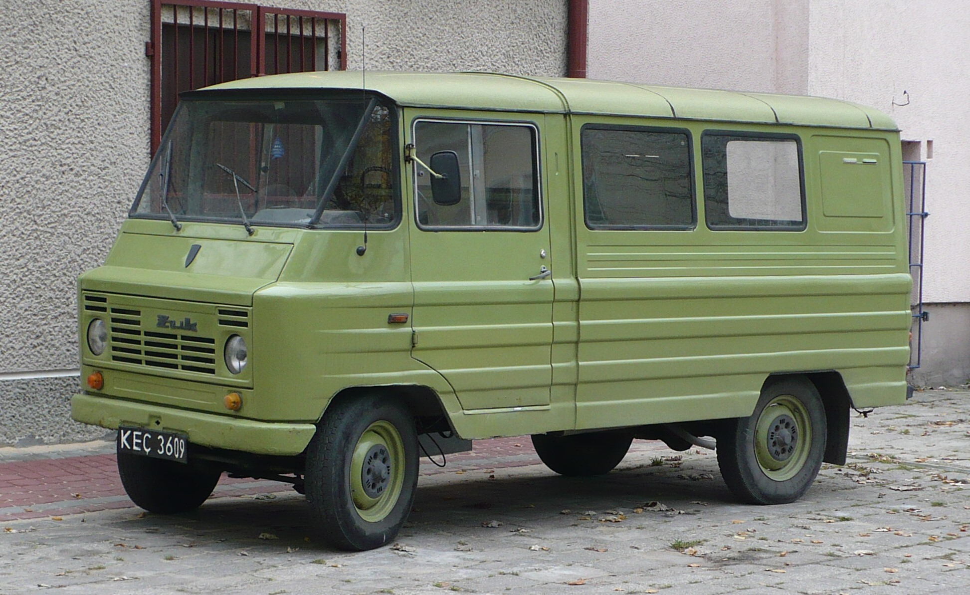 Polish FSC Żuk A-07 van.